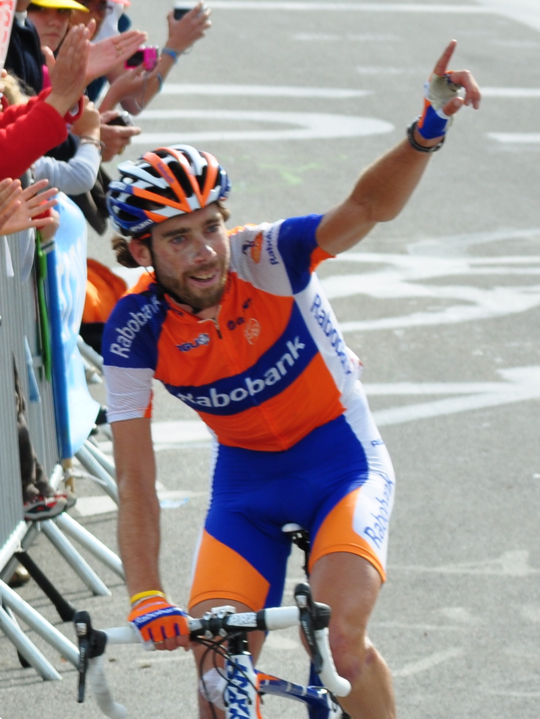 Laurens ten Dam approaches finish line to stage 19 of the 2011 Tour de France.